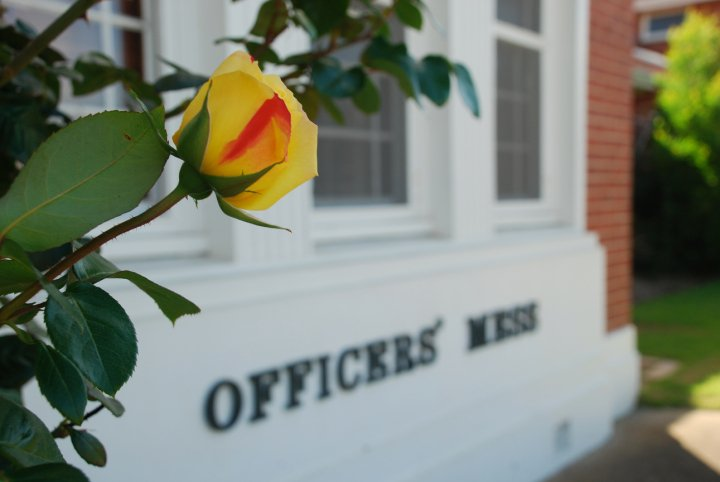 RAAF Base Point Cook Officer's Mess